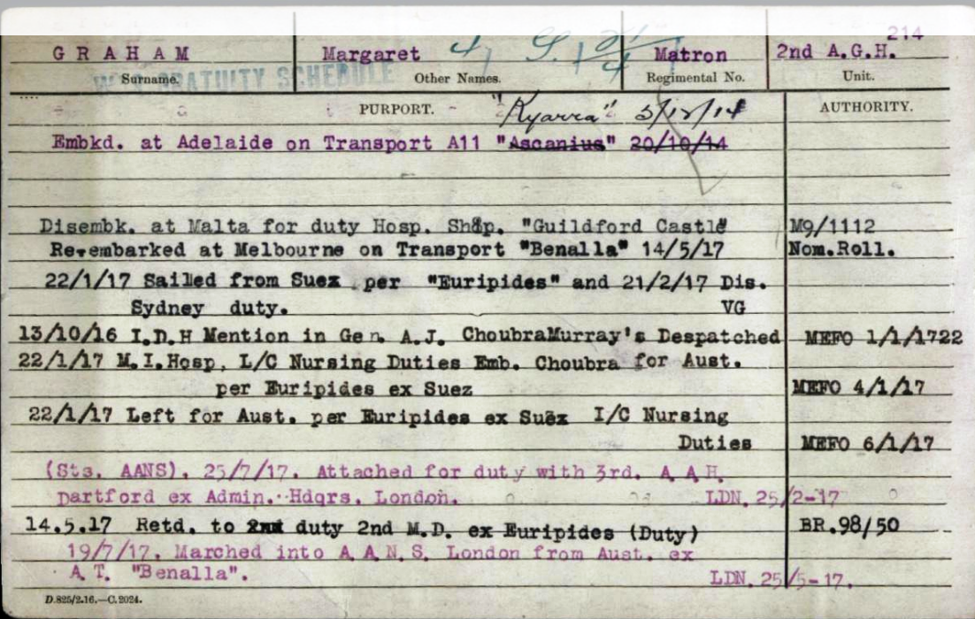 Army record Matron Margaret Graham WWI